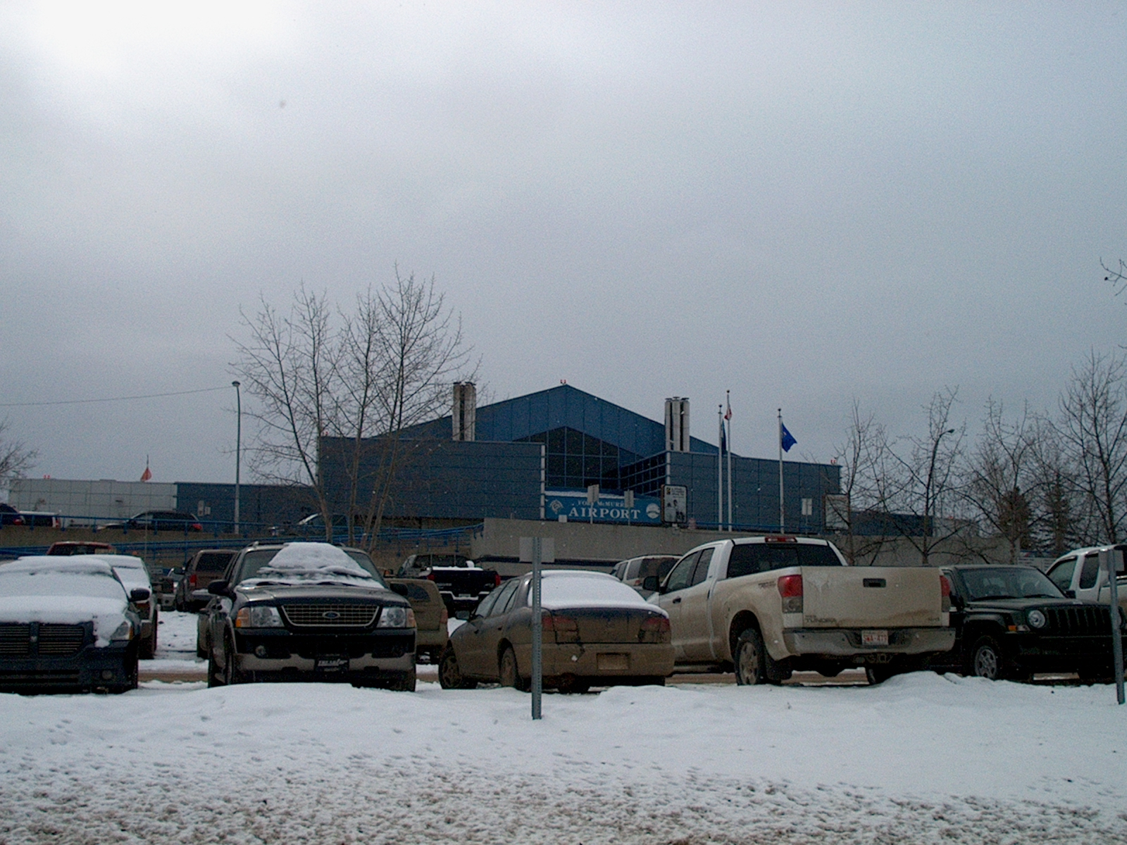 Fort McMurray airport, terminal building (YMM).